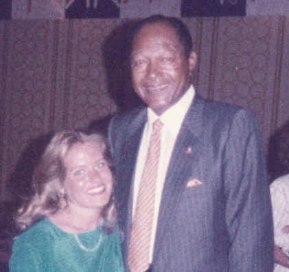 Tom Bradley with Charlotte Laws